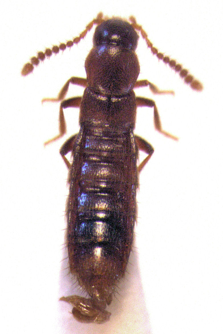 adult male Leptusa sp. 2 from Antipodes Islands, length about 2.5 mm. NEW ZEALAND AN, Mt Galloway, litter, 8 Feb 2011, J.C. Russell.